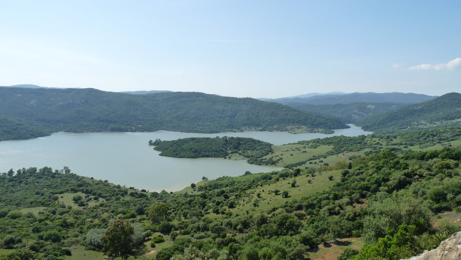 View from the Castle